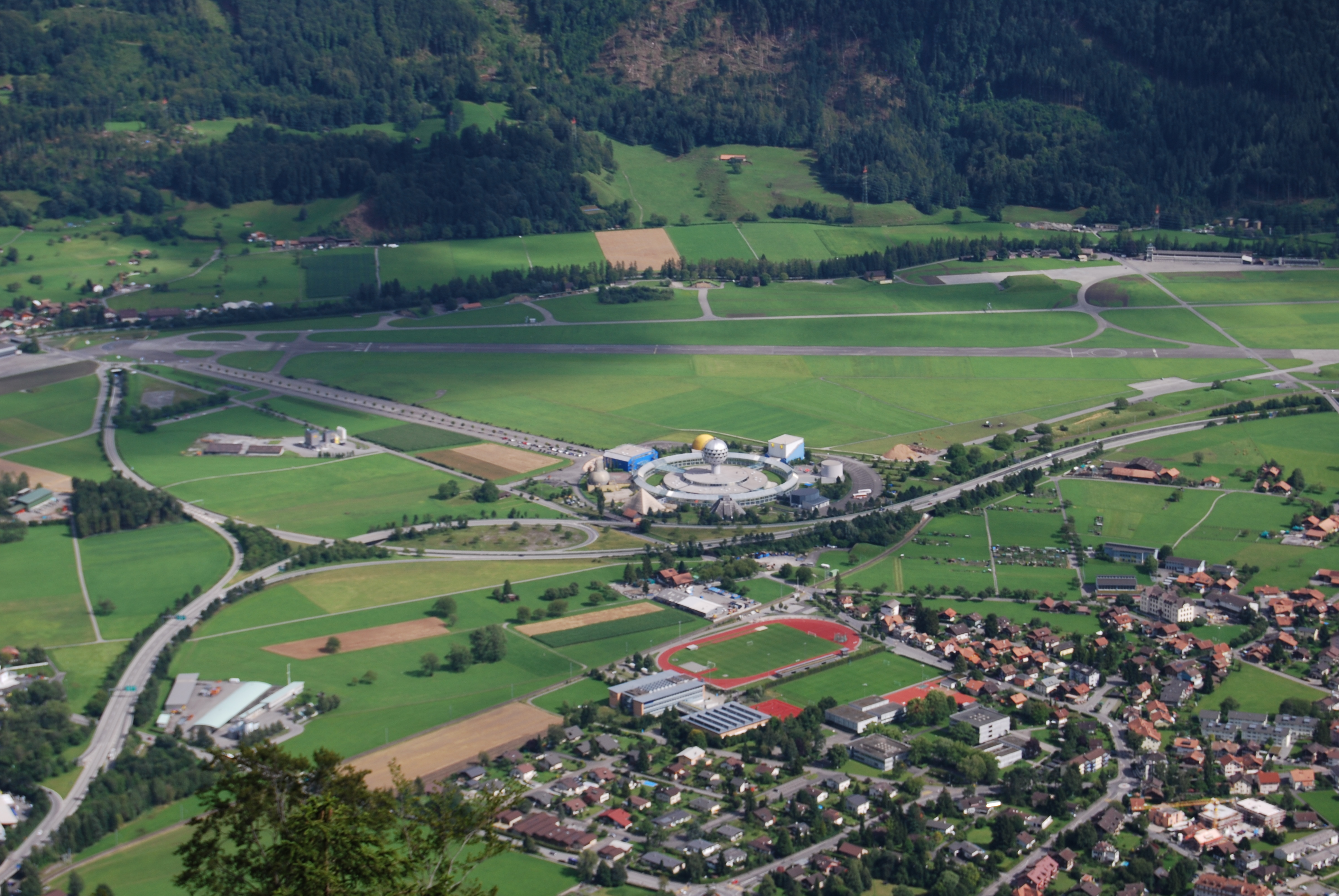 Matten bei Interlaken and Mystery Park, canton of Bern, Switzerland